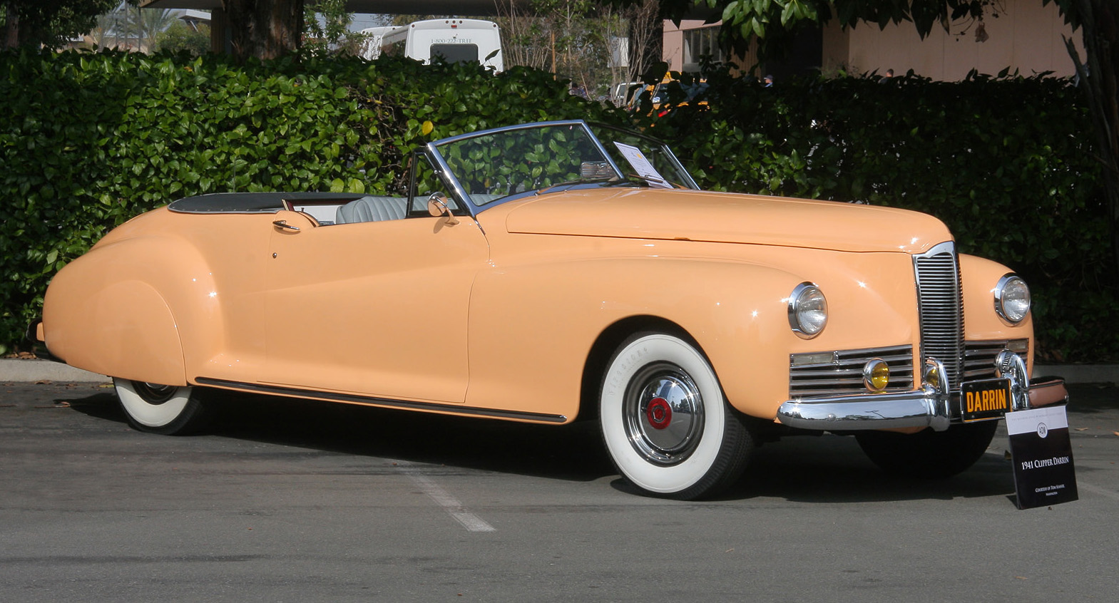 1941 Packard Clipper Darrin Convertible at Packard Club meeting, Double Tree Hotel, Orange, CA, Jan 29, 2010